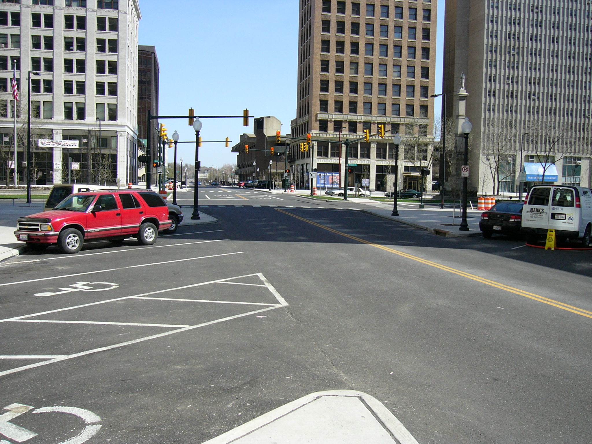 The recently re-opened Federal Street, in Youngstown, Ohio